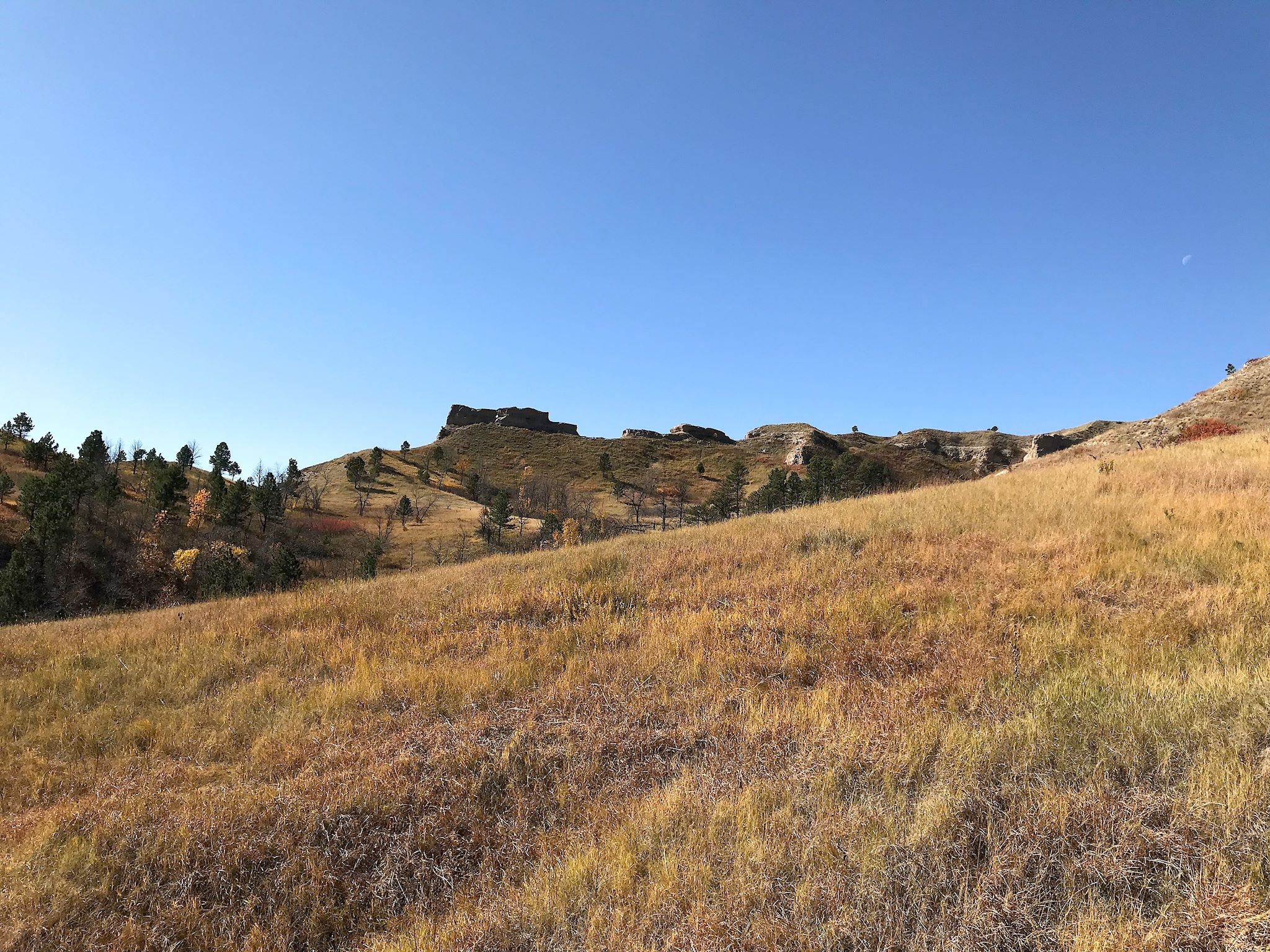 Ridges in Chadron State Park